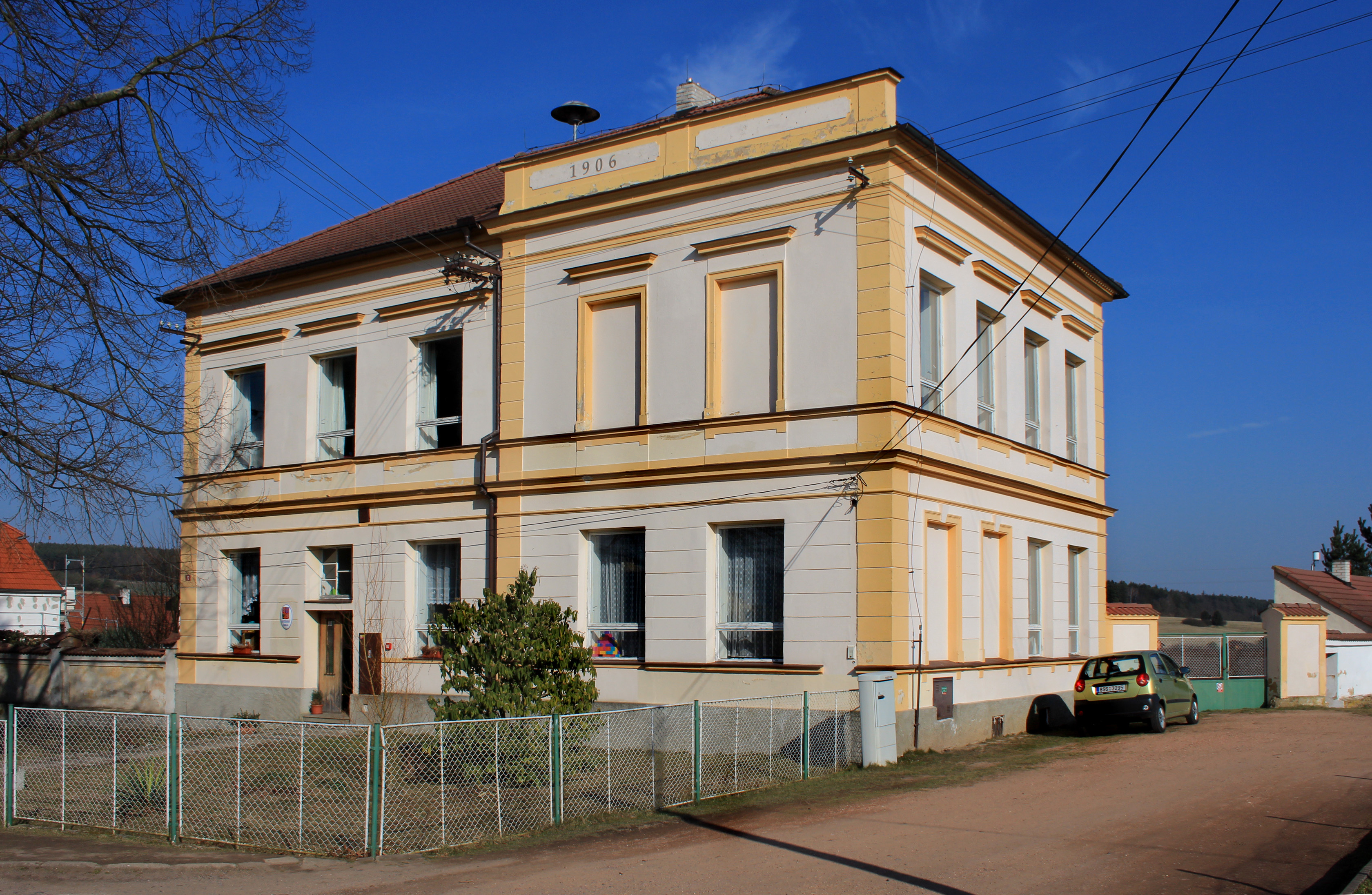 Old school in Rochlov, Czech Republic.